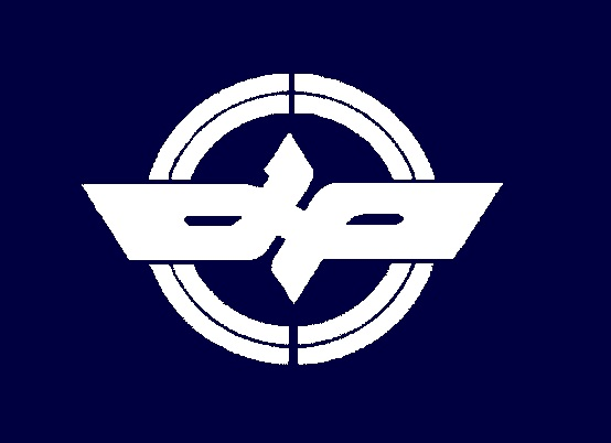 Flag of Misasa Tottori